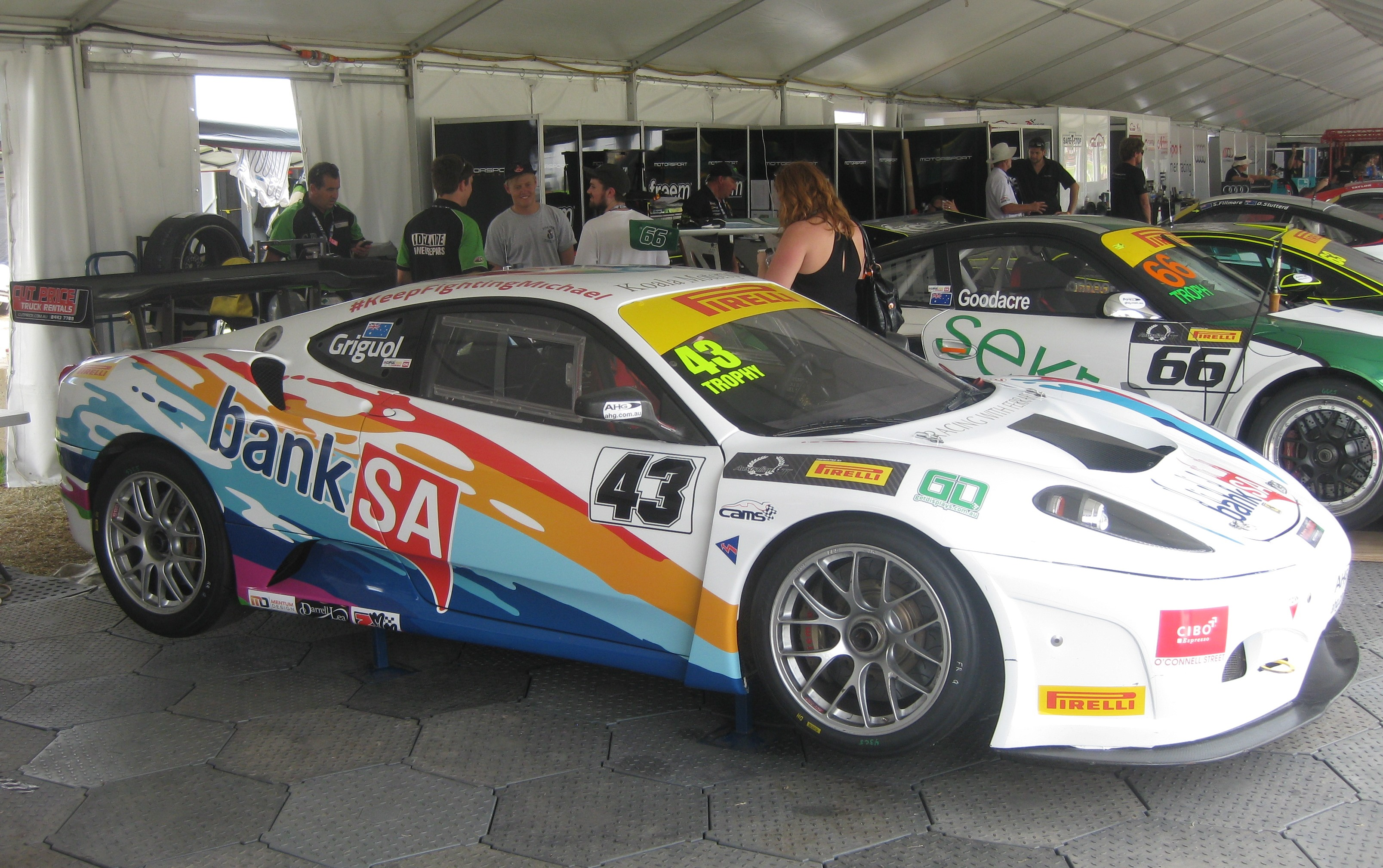 The Ferrari F430 GT3 of Brenton Griguol at the opening round of the 2015 Australian GT Championship